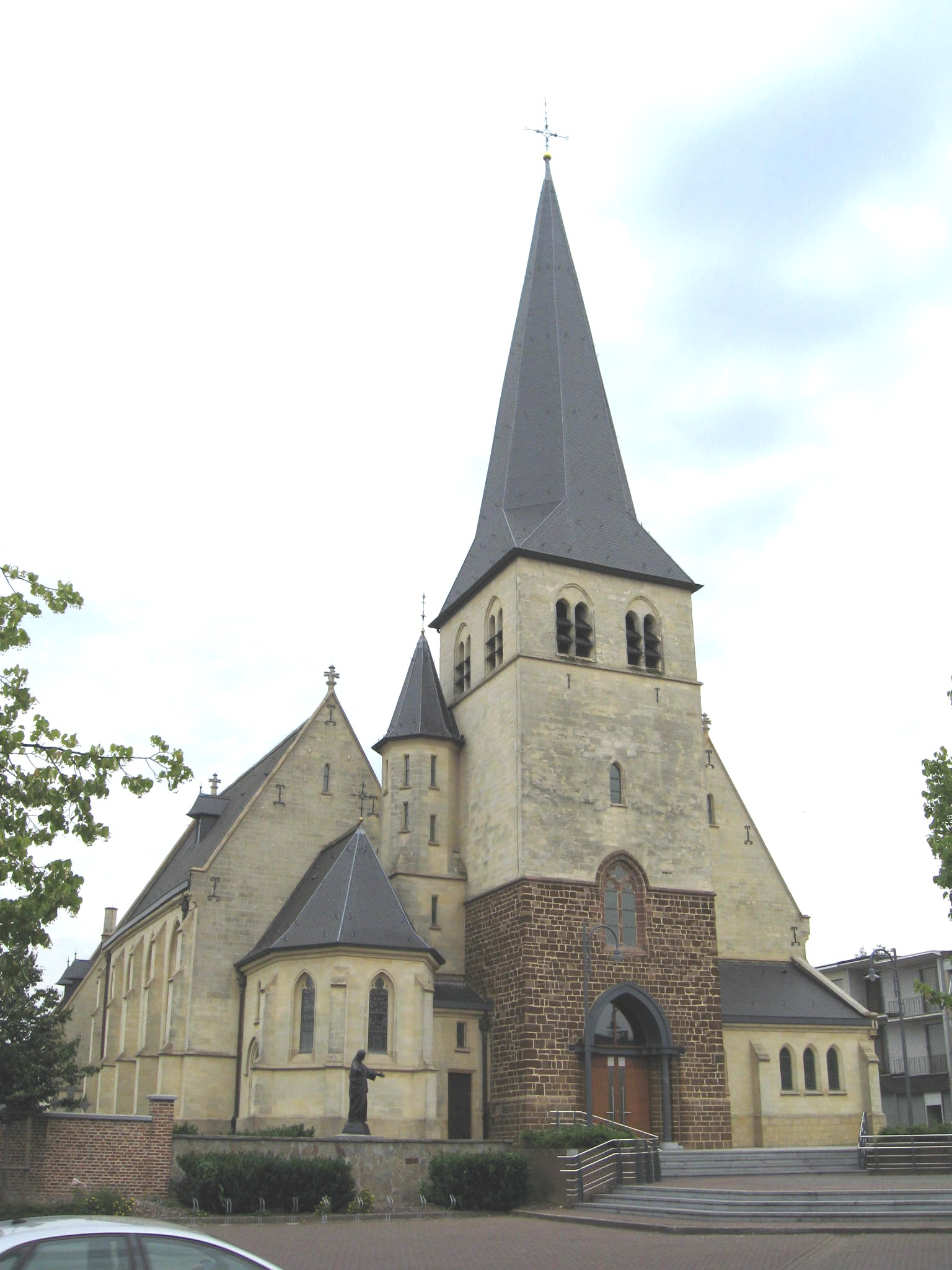 Church of Saint Hubert and Saint Vincent in Zolder, Heusden-Zolder, Limburg, Belgium